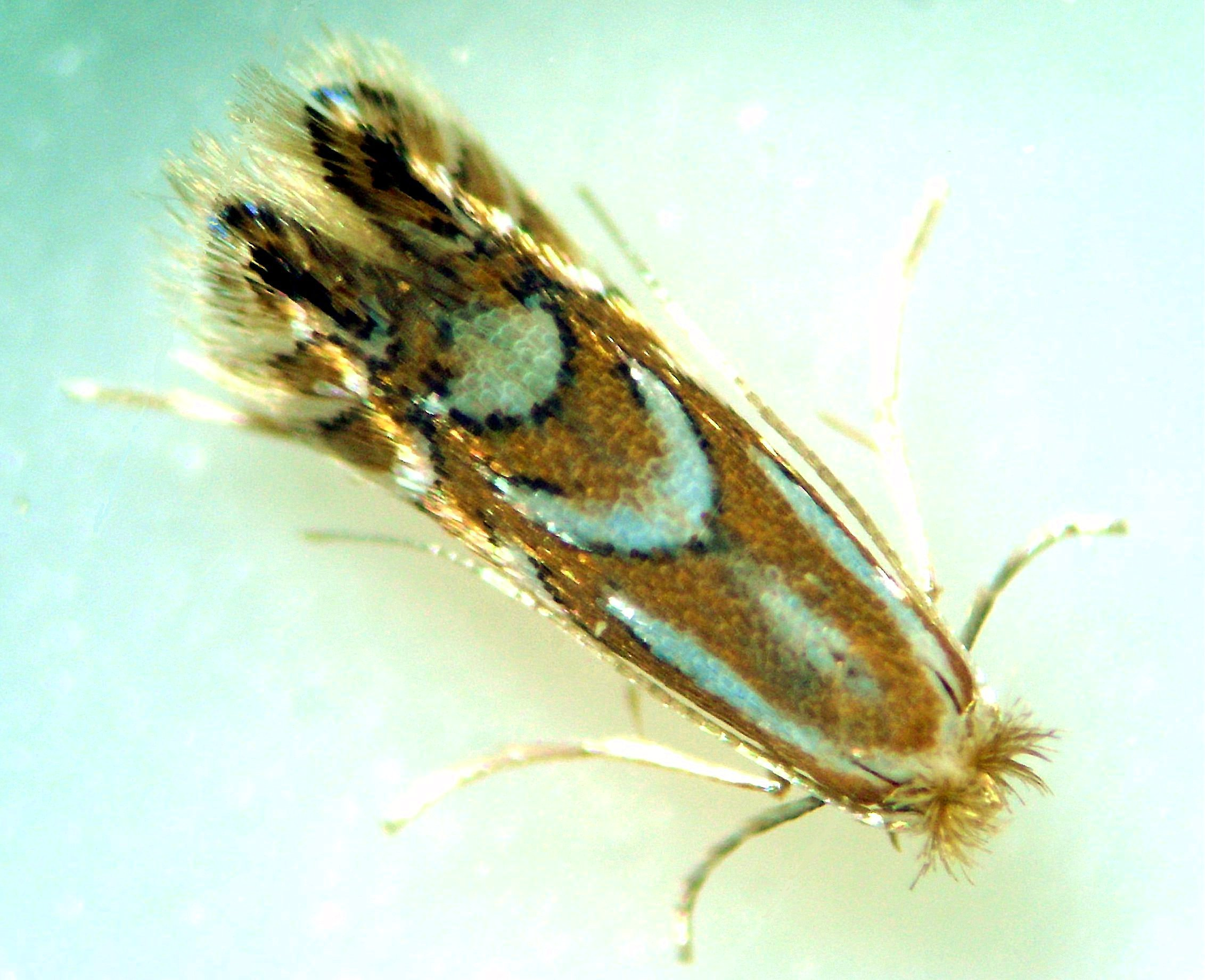 The leaf blotch miner moth (Phyllonorycter sorbi) (size - 4 mm)